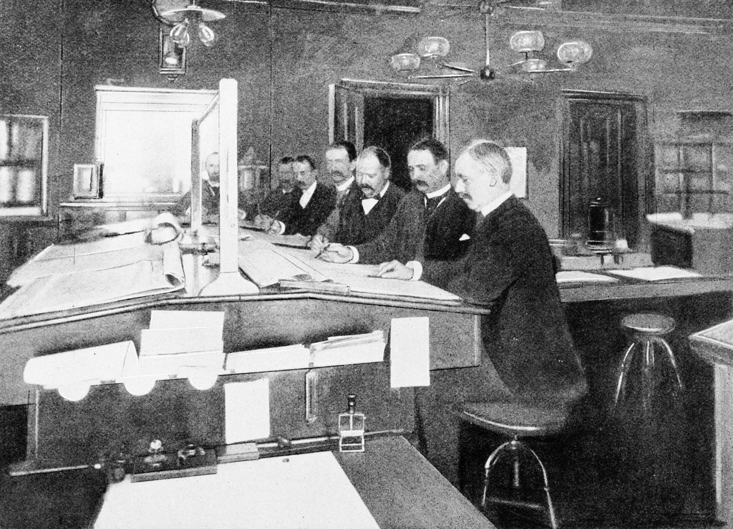 Forecasters at work in Washington DC